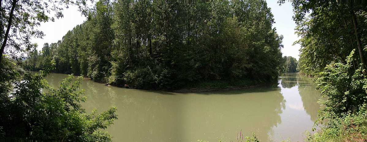 Aisne at the village of Soupir, Panorammontage